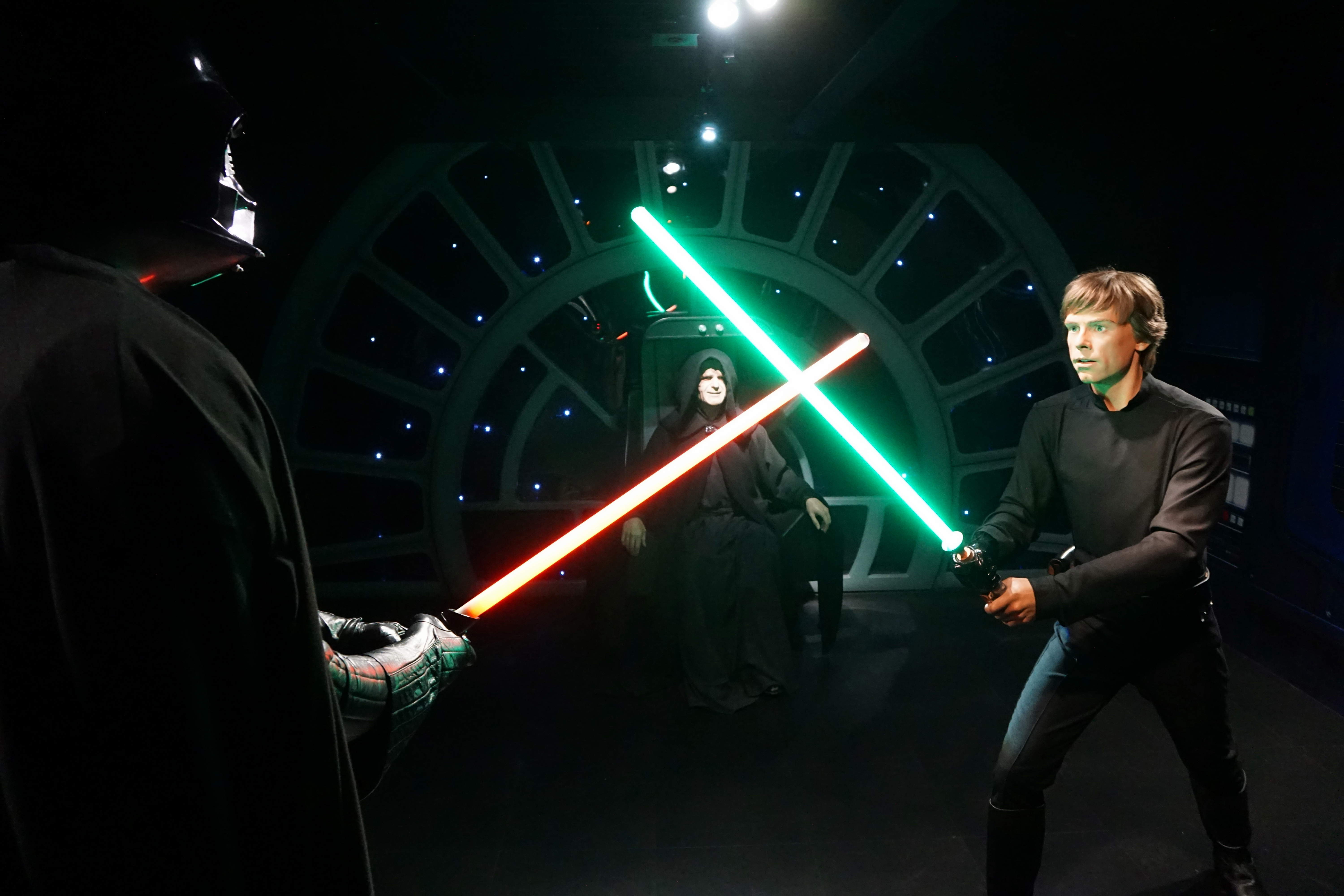 The fight of Luke Skywalker, Darth Vader and The Emperor at Madame Tussauds